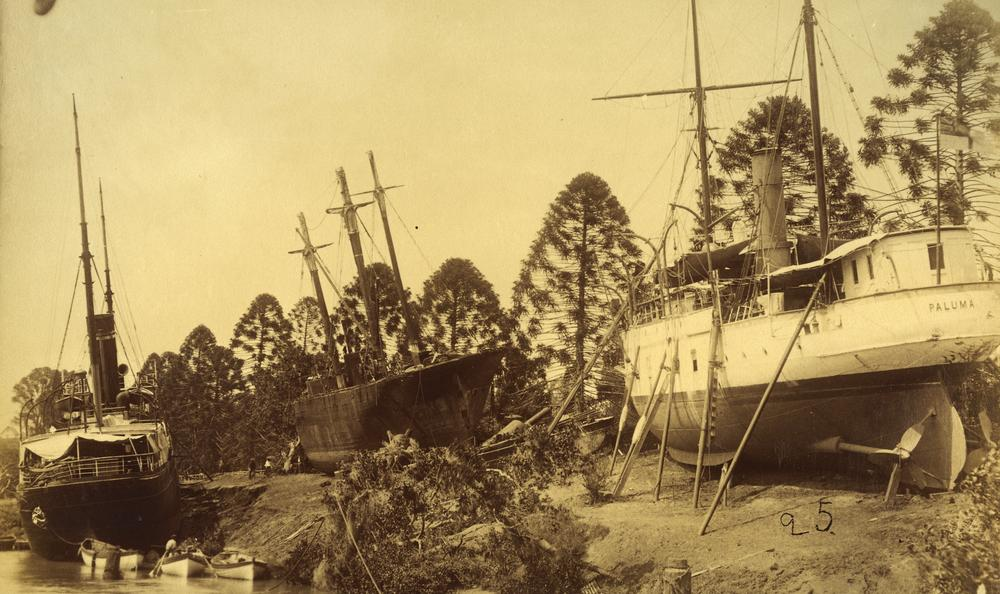 Three boats stranded in the Brisbane Botanical Gardens, 1893 The Paluma and two other freighters stranded after the receding 1893 floods of the Brisbane River.